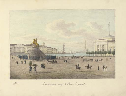 Saint Petersburg (Russia), Senate Square with de monument of Peter the Great; by Andrei Efimovich Martynov